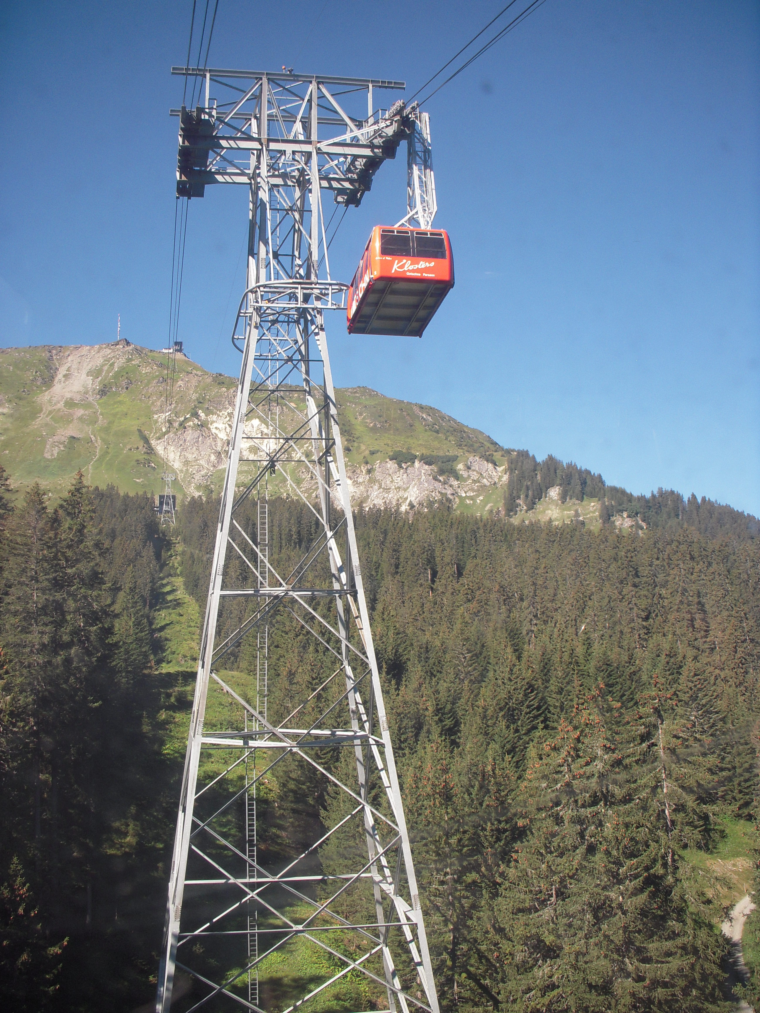 The car "Prince of Wales" on its way down. The cableway Gotschnabahn in Klosters, Graubünden, Switzerland. August 18, 2012.